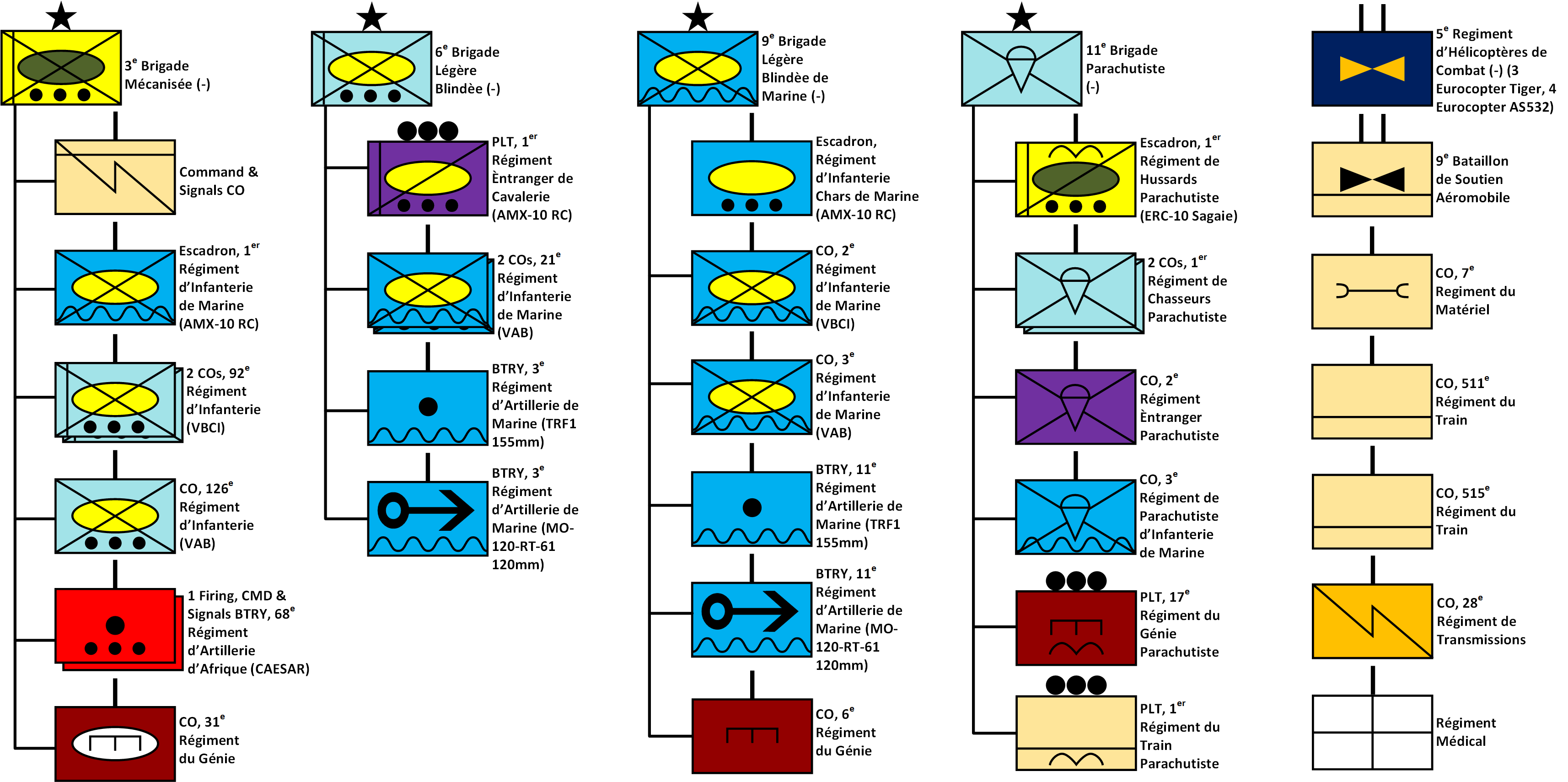 Initial forces sent to Northern Mali for Operation Serval